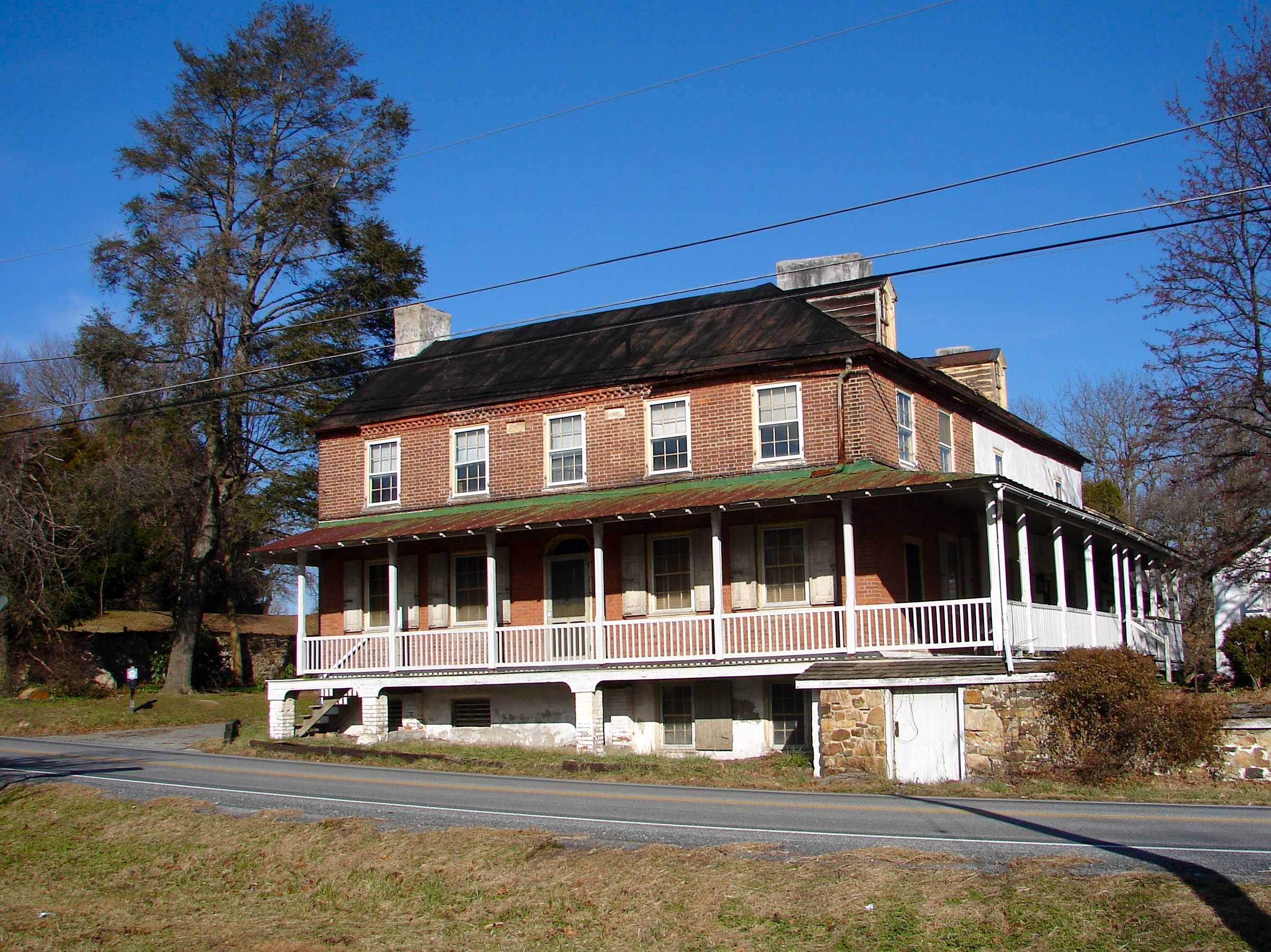 Lunn's Tavern on the NRHP since October 25, 1979. On Pennsylvania Route 896 NW of Strickersville Rd in Strickersville, London Britain Township, Chester County, Pennsylvania. Site of the writing of a famous letter between 2 Delaware signers of the Declaration of Independence. Brick addition, seen here, built early 1830s.